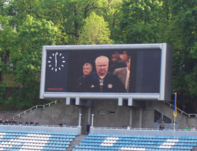 Image of VVLobanovsky during Memorial Tournament